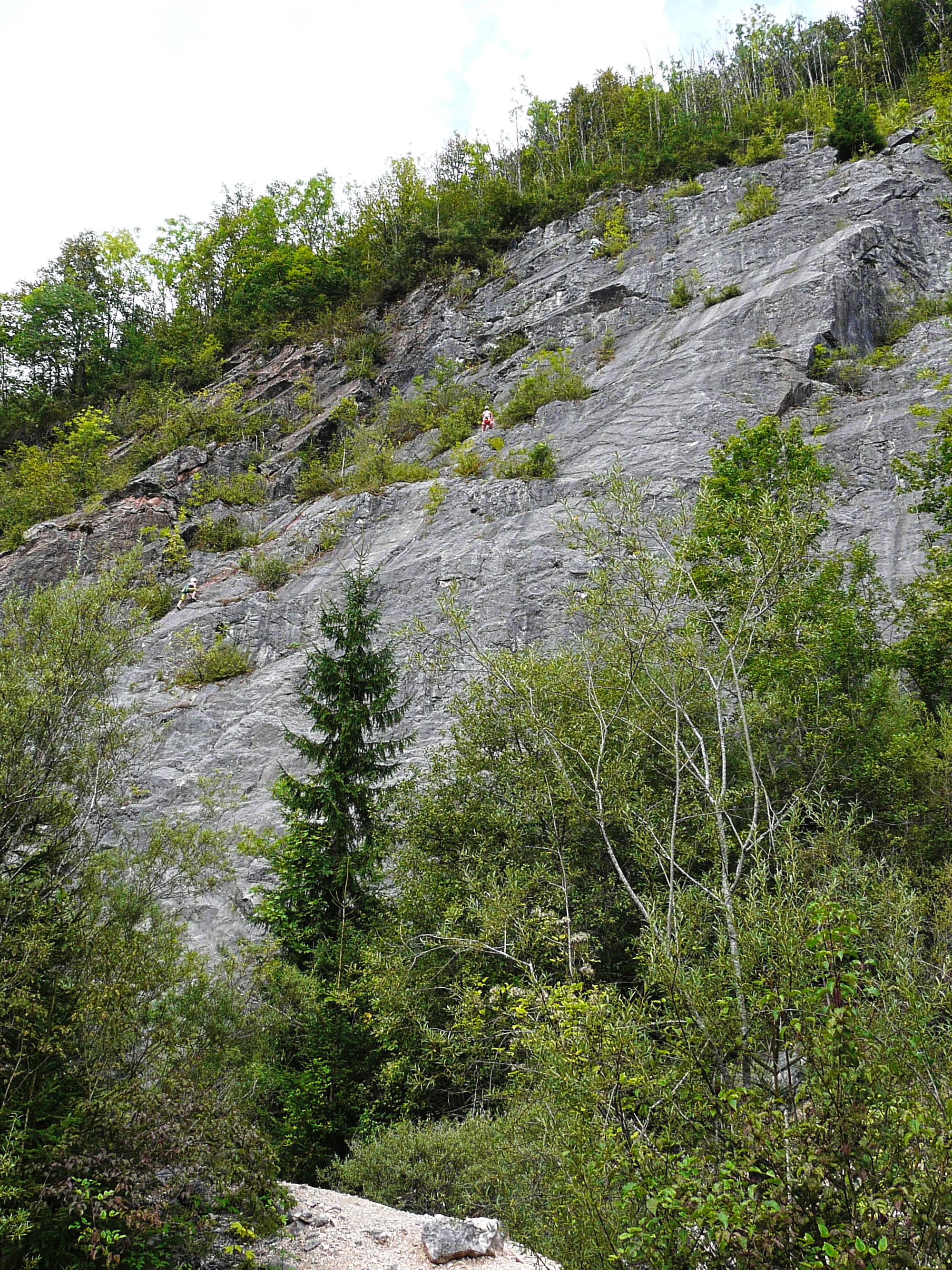 abandoned limestone quarry for "Ruhpoldinger Marmor" in Haßlberg by Ruhpolding, today used as climbing garden